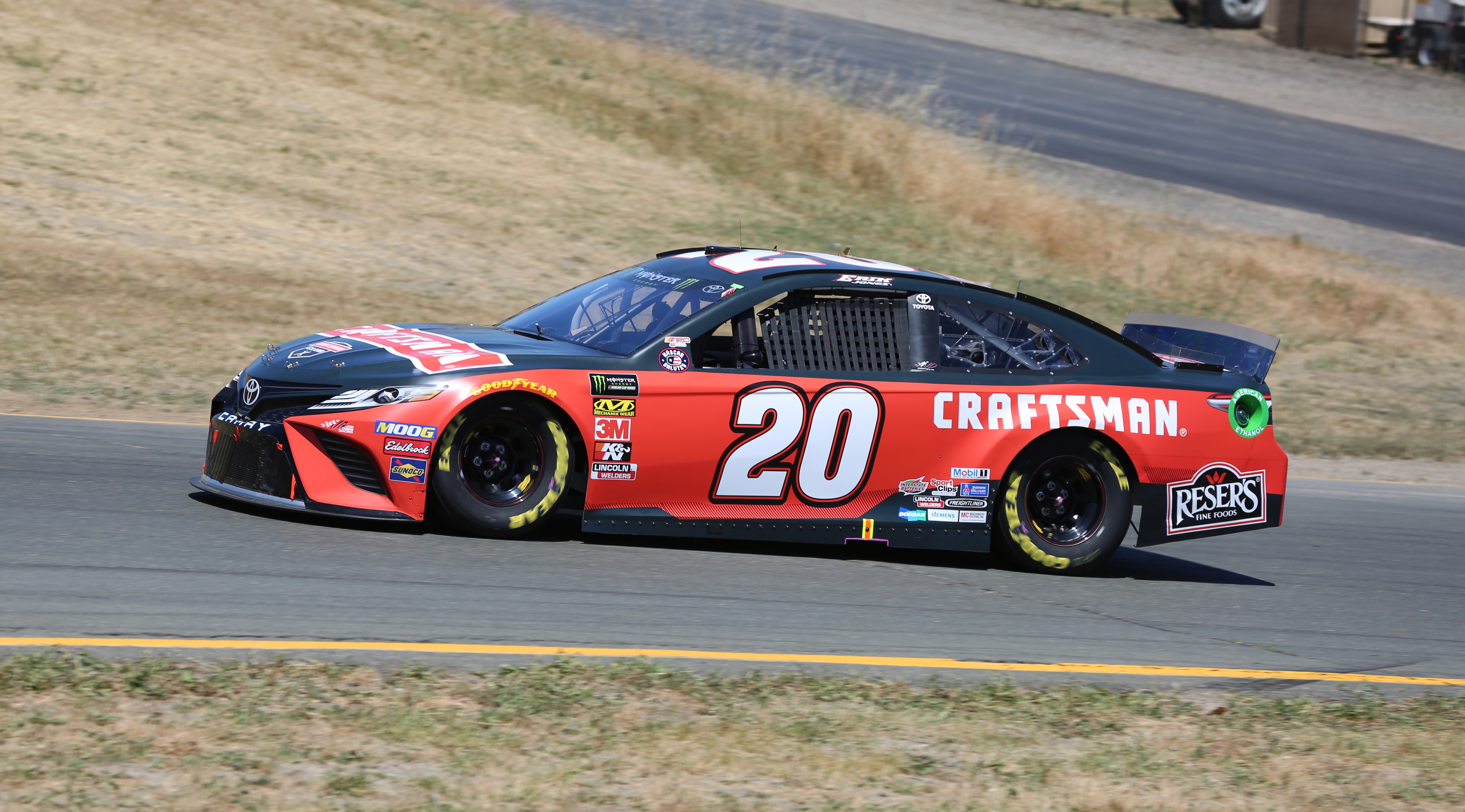 Erik Jones' No. 20 Craftsman Toyota at Sonoma Raceway in 2019